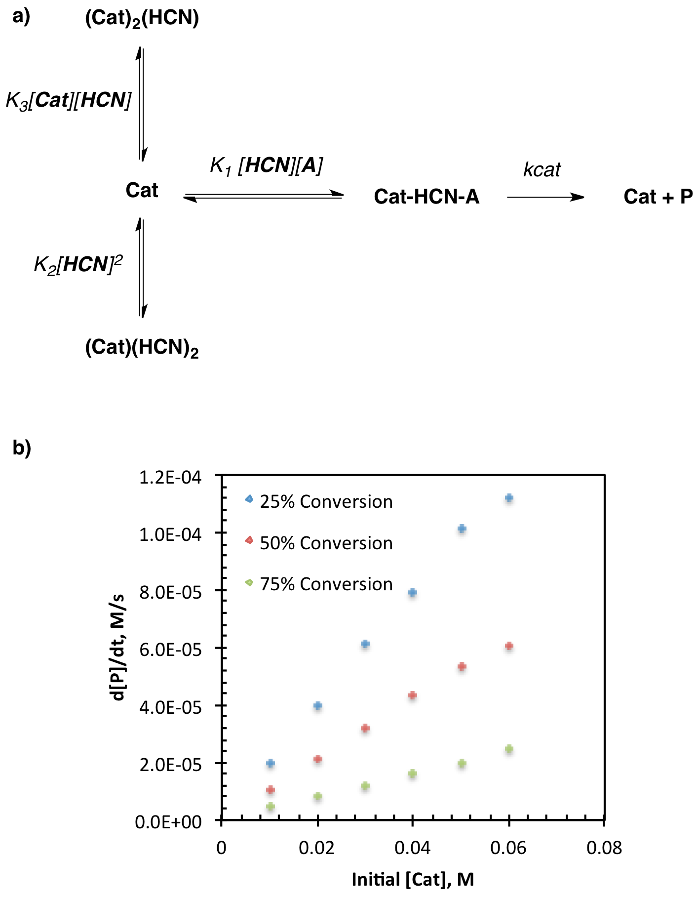 The rate of product formation in the cyanosilylation of ketones shows a slight non-linear dependance on catalyst loading at high catalyst concentrations. a) This observation, among others, is accounted for by the reversible formation of inactive catalyst complexes. b) Similar behavior at multiple conversion points is consistent with one dominant mechanism operating over the entire course of the reaction. The mechanistic scheme and kinetic data are adapted from independent kinetic simulations using the rate and equilibrium constants reported for the amino-thiourea catalyzed cyanosilylation of ketones by Zuend, S. J.; Jacobsen, E. N. J. Am. Chem. Soc. 2007, 129, 15872.